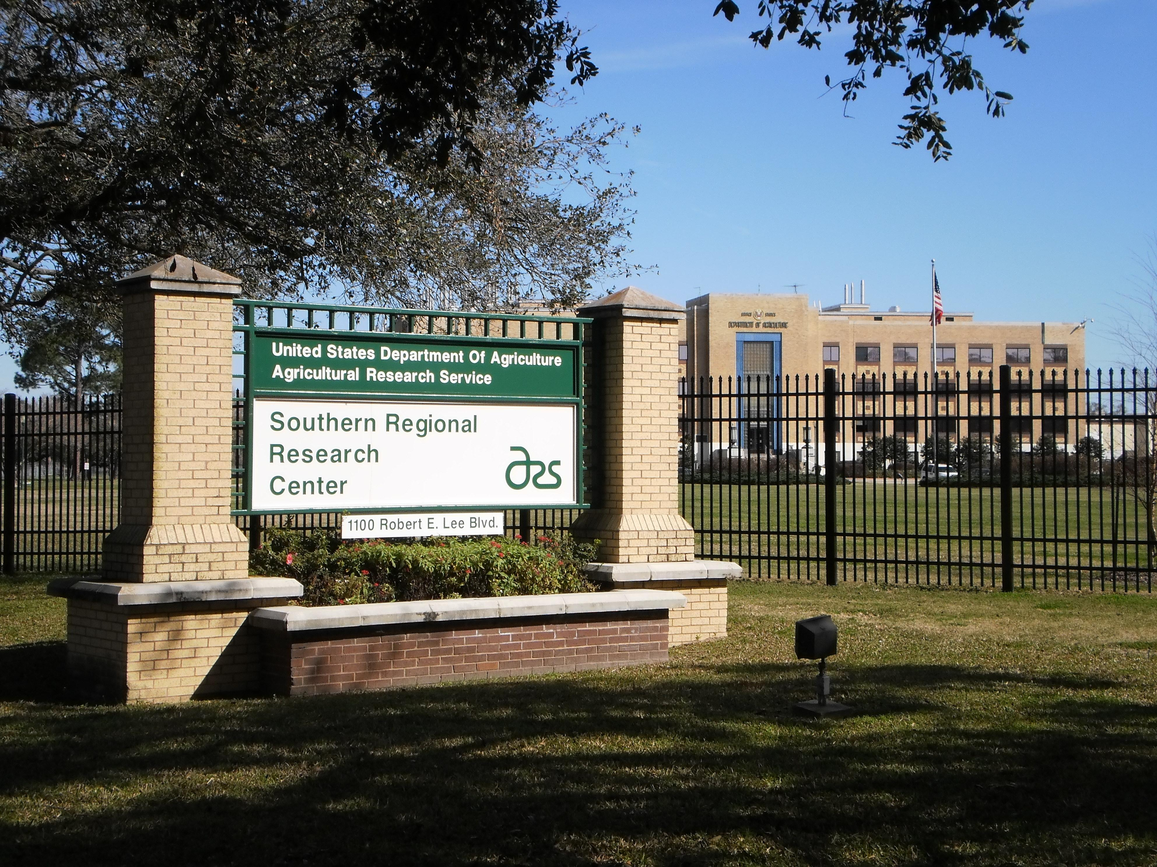 The Southern Regional Research Center of the Agricultural Research Service of the United States Department of Agriculture, located at 1100 Robert E. Lee Boulevard, New Orleans, Louisiana